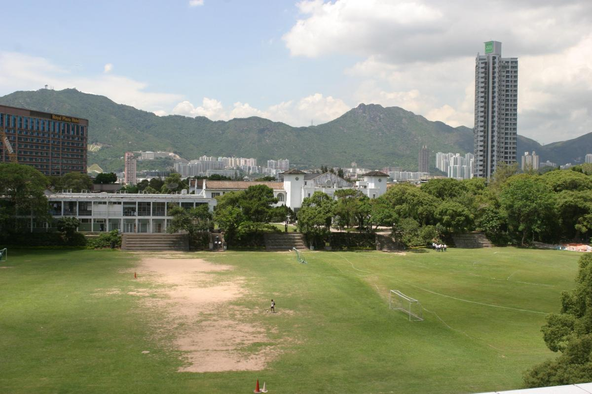 Diocesan Boys School, a prestigious secondary school in Hong Kong